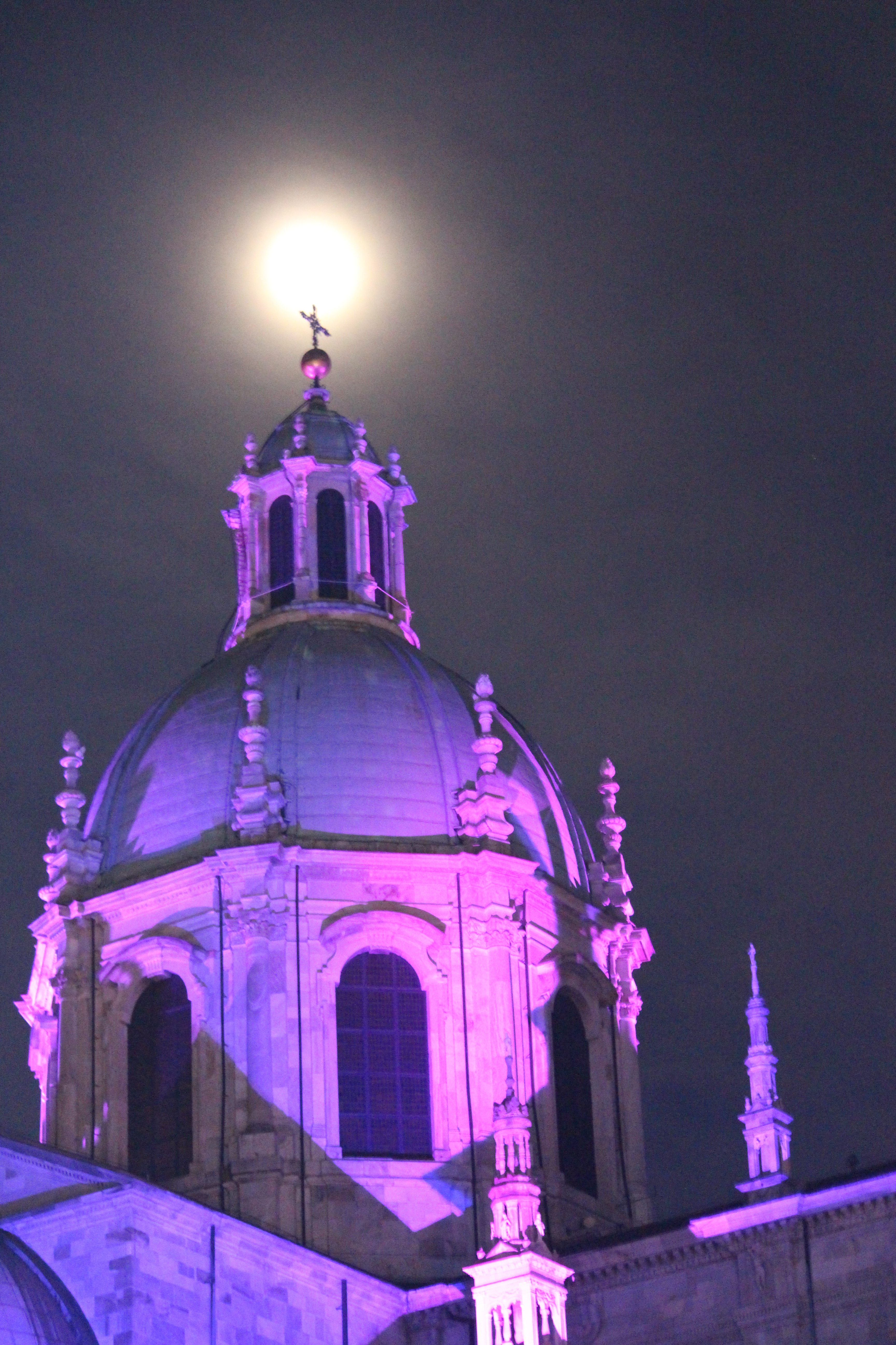 Cathedral of Como as seen across the lake at night